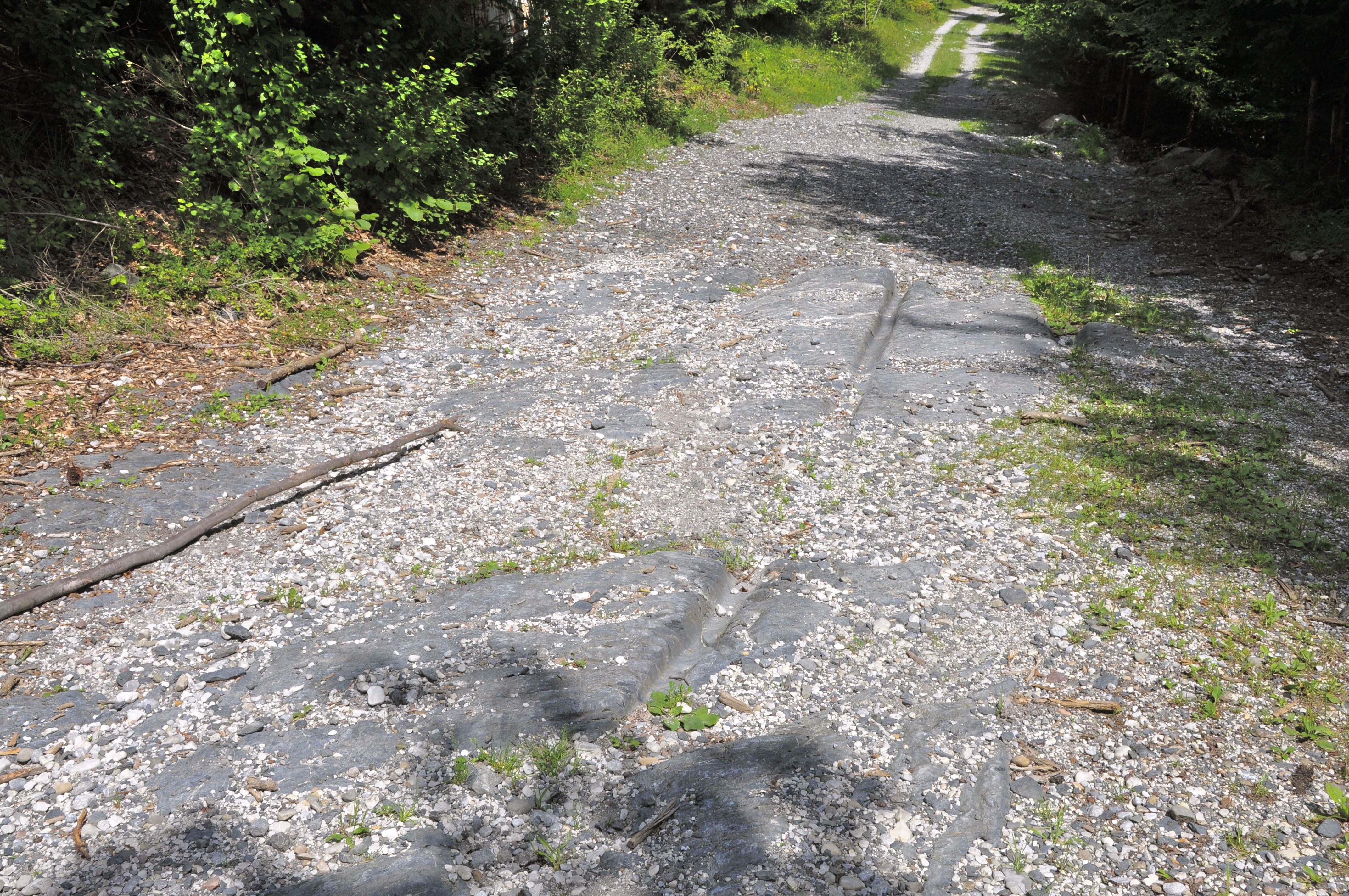 Lane grooves on the ancient Roman road in the Maglern forest, municipality Arnoldstein, district Villach Land, Carinthia, Austria, EU